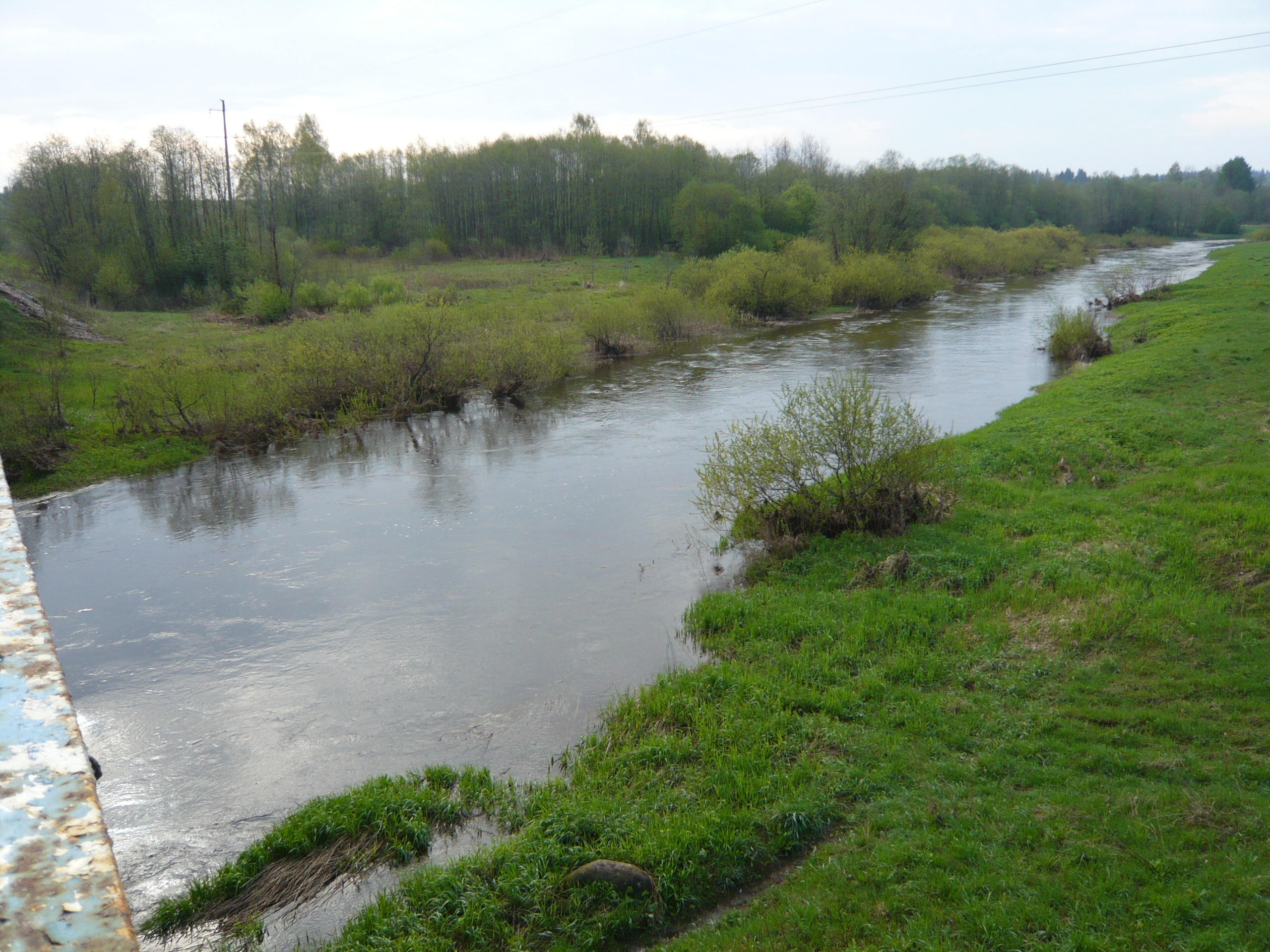 Osuga river near the bridge on the roadway Torzhok - Ostashkov 10 May 2010 year